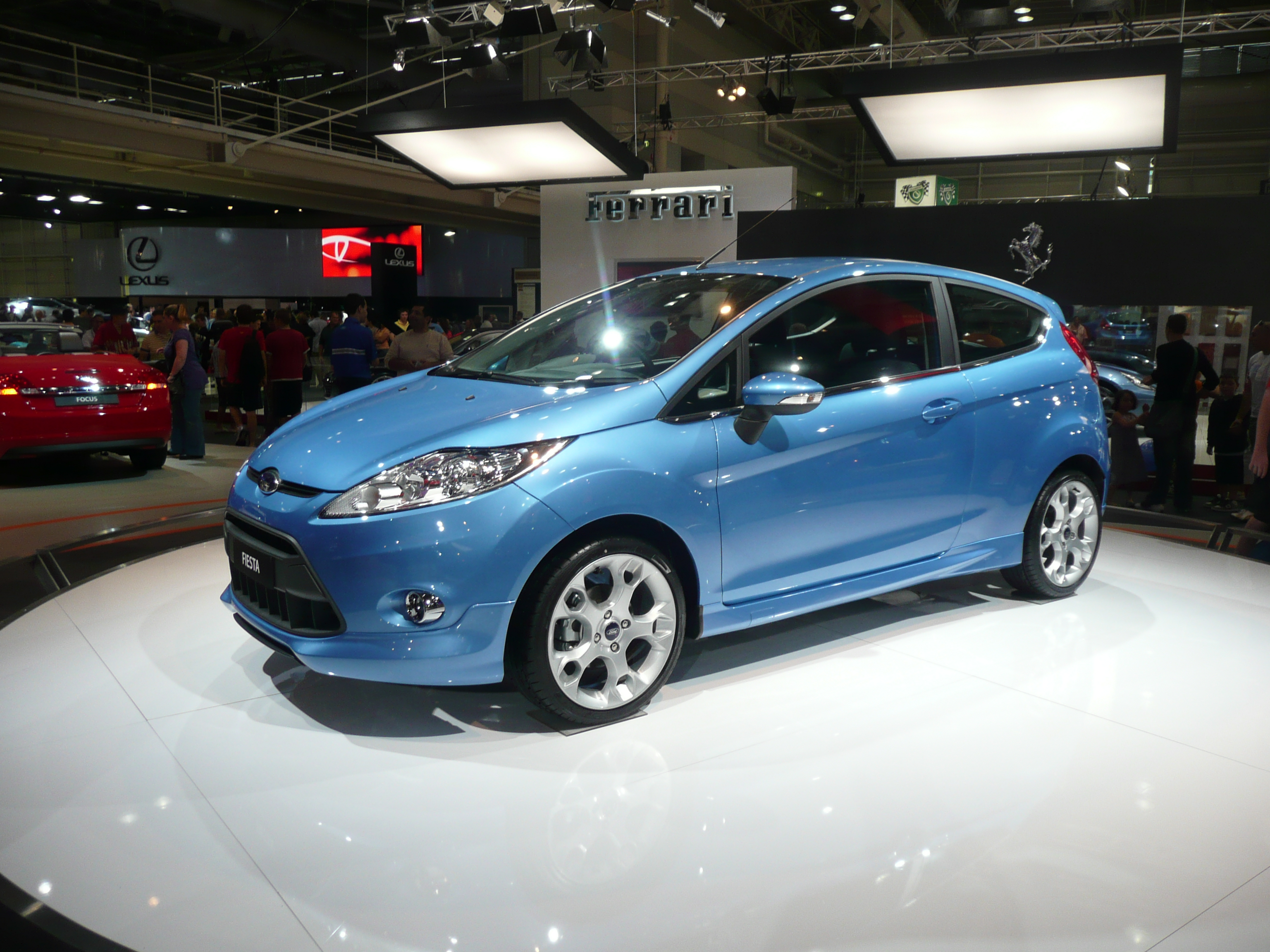 2008 Ford Fiesta (WS) Zetec 3-door hatchback. Photographed at the 2008 Australian International Motor Show, Sydney, New South Wales, Australia.